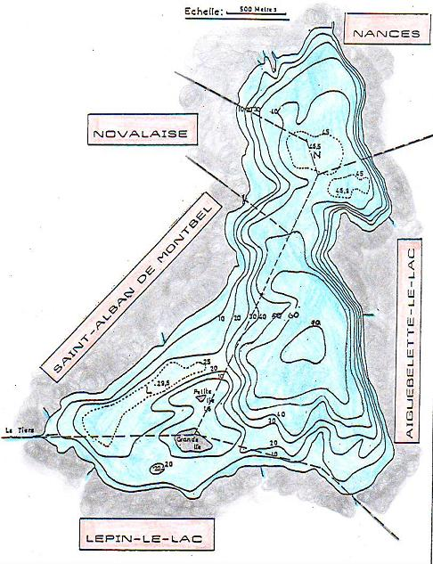 Aiguebelette lake (bathymetric map) Author= Michel Tissut (1987) After Delebecque (1898) Permission of Michel Tissut to EdC, May 22nd 2006